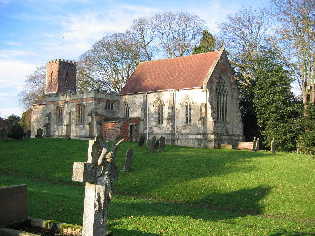 St. Mary's Church, Lockington, East Riding of Yorkshire, England.The church is near the north edge of the grid square which is mostly farmland.